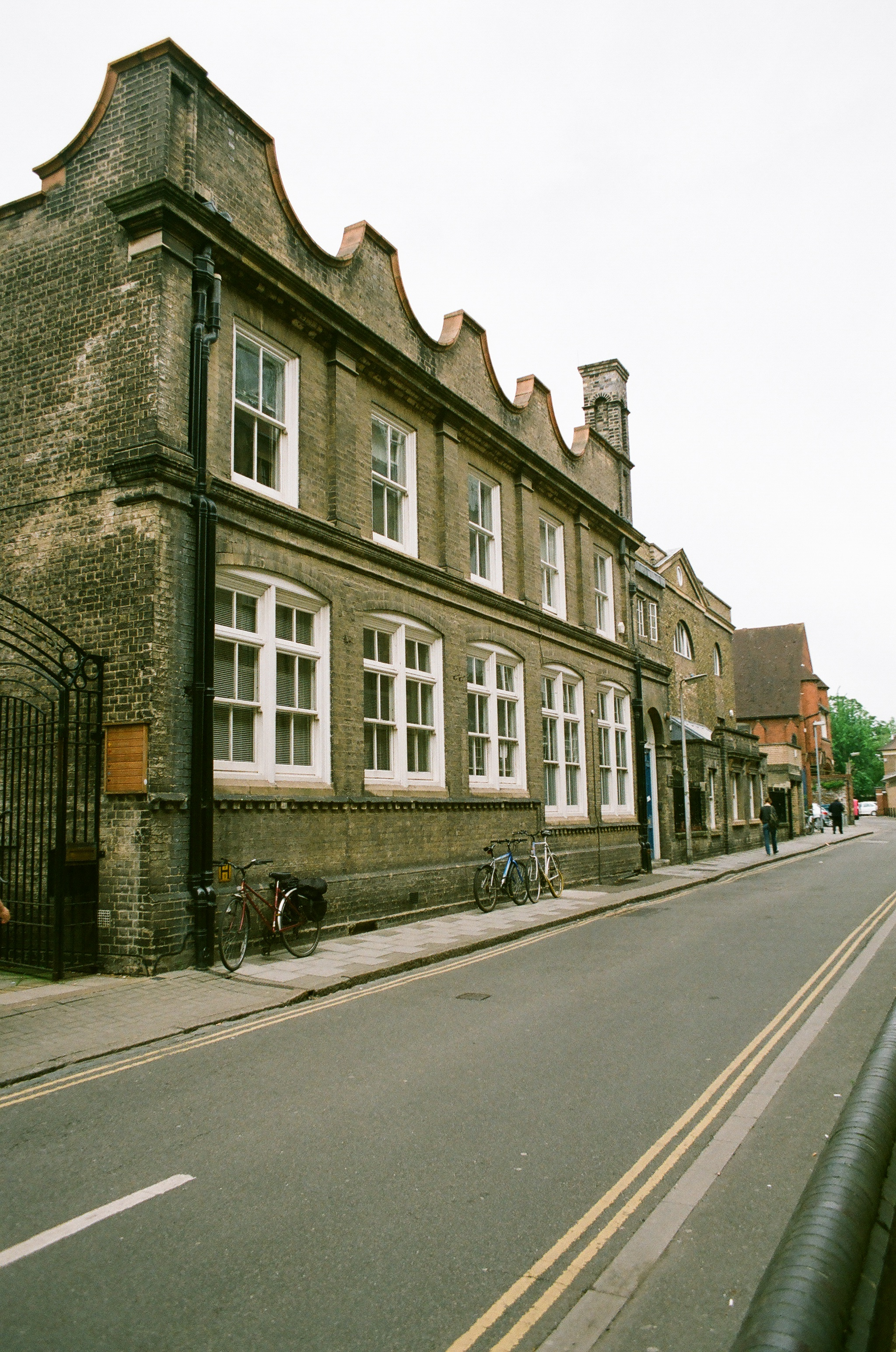 Old Music School The Old Music School currently houses the University's Language Centre. Last time I looked inside it, the second building on the left contained a lecture theatre full of cardboard boxes. I wonder if it still does.